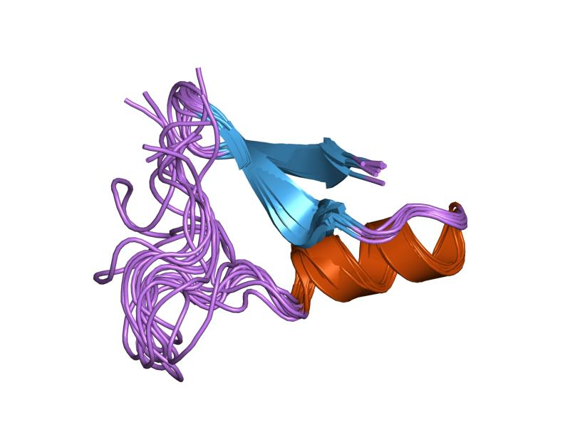 Cartoon representation of the molecular structure of protein registered with 1ica code.